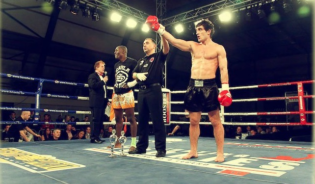 Rati Tsiteladze Winner of FIGHTING ROOKIES by K-1 rules - 27-11-2010 - Holland